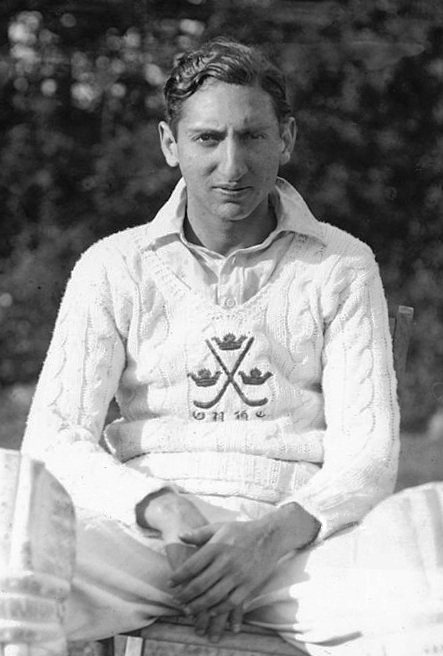 Iftikhar Ali (1910 - 1952), Nawab of Pataudi, who set a record for the annual cricket match against Cambridge whilst he was at Oxford, with 238 runs, and went on to have outstanding success in English cricket.